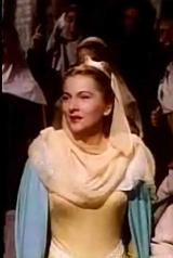 Cropped screenshot of Joan Fontaine from the trailer for the film Ivanhoe (1952).